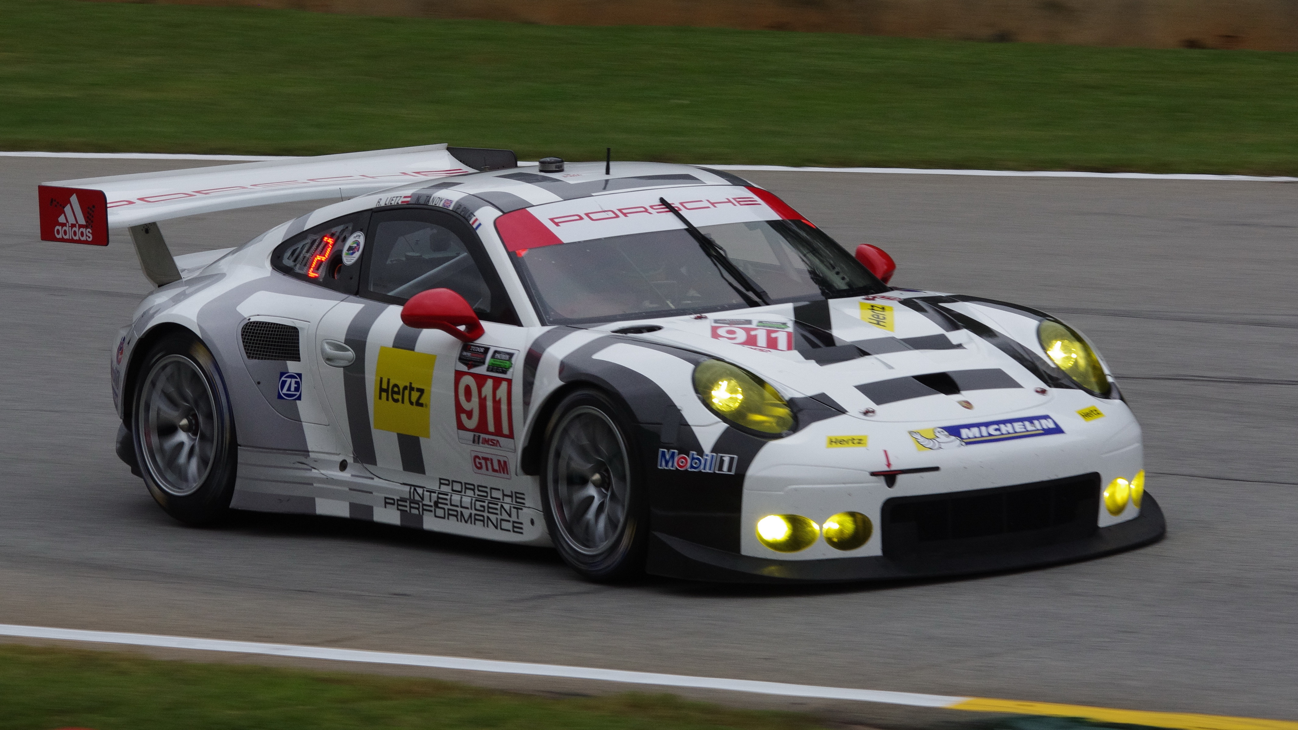 Road Atlanta - Petit le Mans 2015 - Tudor GTLM - #911 Porsche North America 911 991 RSR - Tandy / Pilet / Lietz